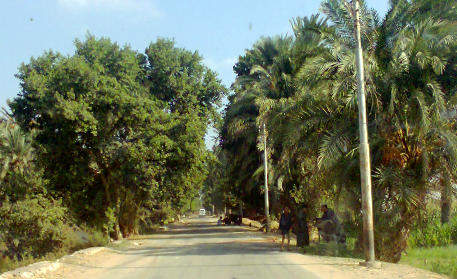 This is an image with the theme "Africa on the Move or Transport" from: Egypt